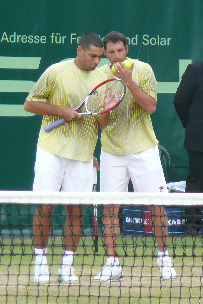 Gerry Weber Open 2008 - Court 1, Quarter-final: Jonathan Erlich/Andy Ram vs. Ivan Ljubičić/Robin Söderling